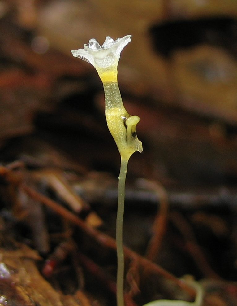 Gymnosiphon bekensis, Korup National Park, Cameroon. Edited Version